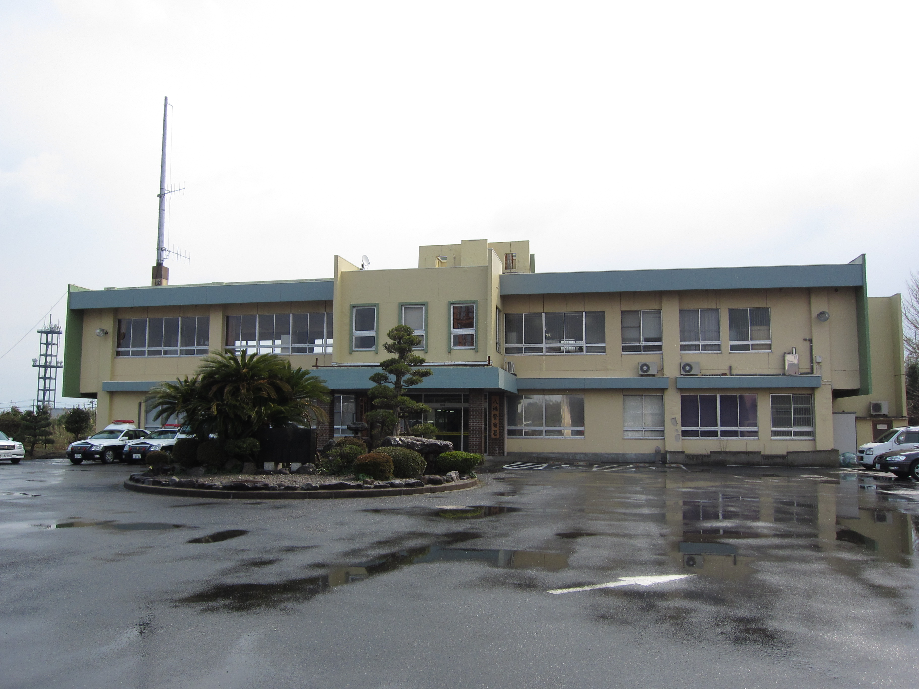 Yabase Police Station